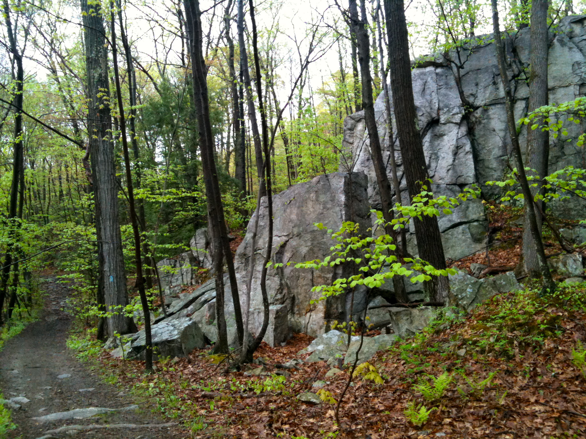 Whitestone Cliffs Trail. Blue-Blazed CFPA "loop" foot path in Mattatuck State Forest. Whitestone Cliffs Trail. Blue-Blazed CFPA "loop" foot path in Mattatuck State Forest. Whitestone Cliffs Trail view of stone cliffs.